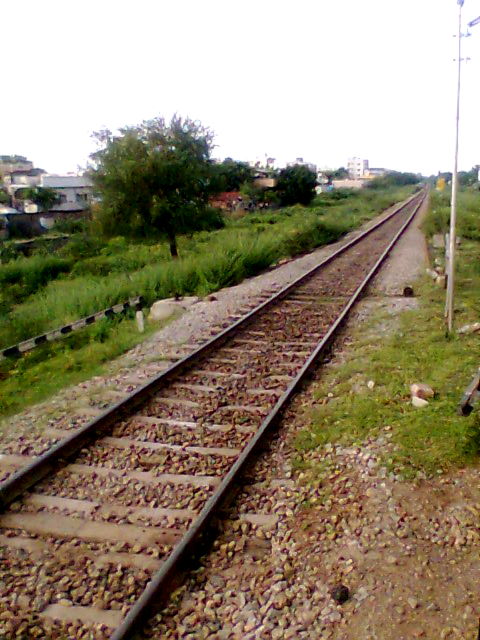 Dronachalam (Dhone), Kurnool district, Andhra Pradesh